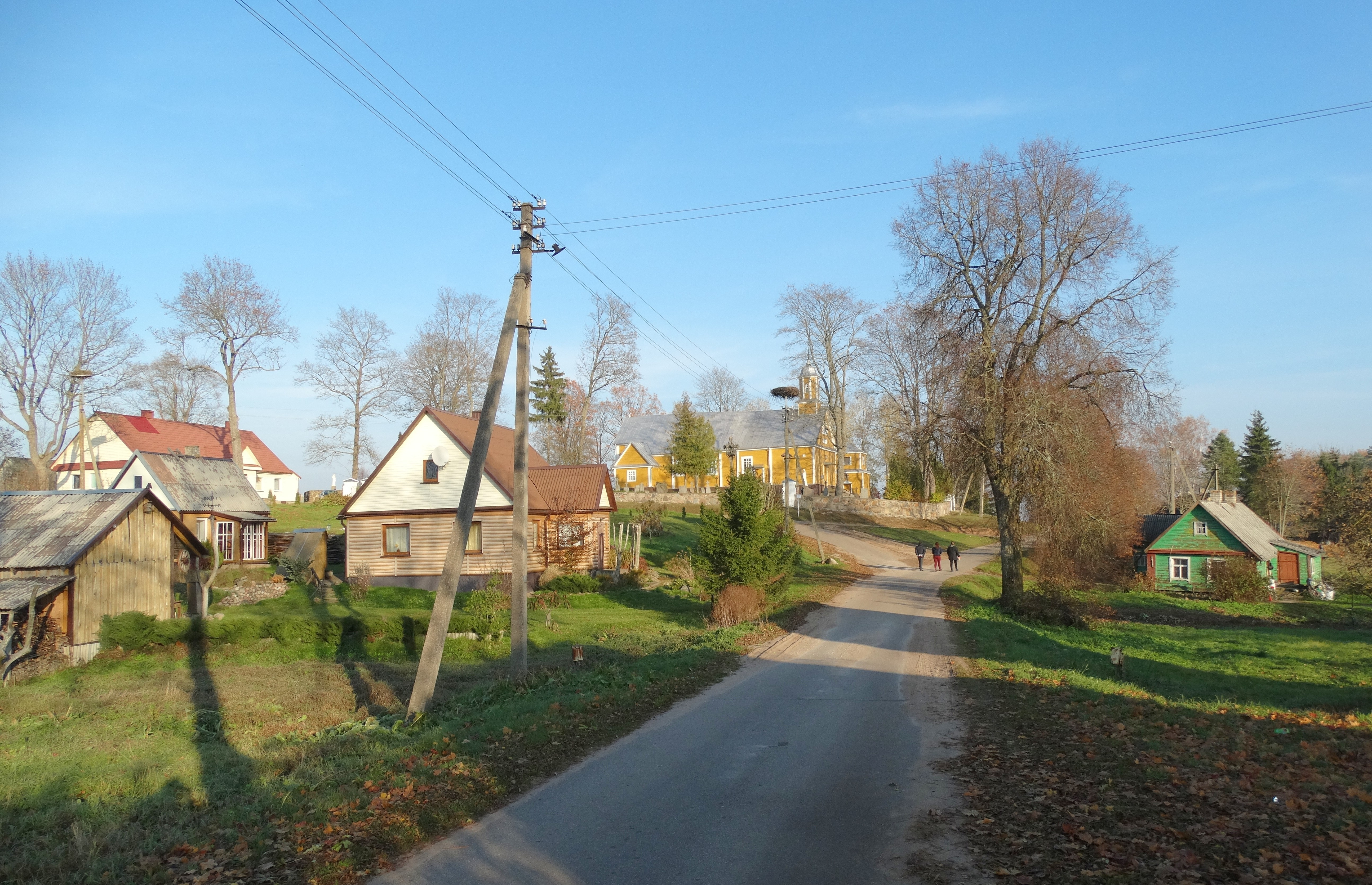 Aviliai, Zarasai district, Lithuania